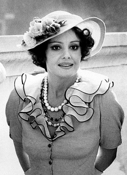 Italian actress Rossana Podestà (Carla Dora Podestà) waiting for the beginning of a new scene on the set of the film The Sensual Man. Rome, 1973